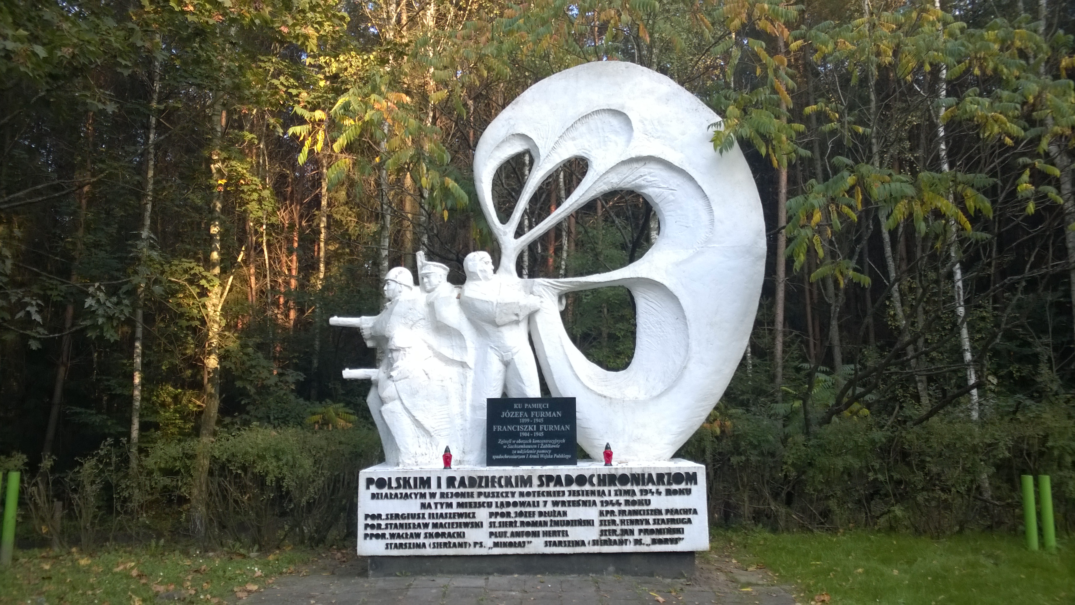 Paratroopers Monument in Sokołowo, Poland.